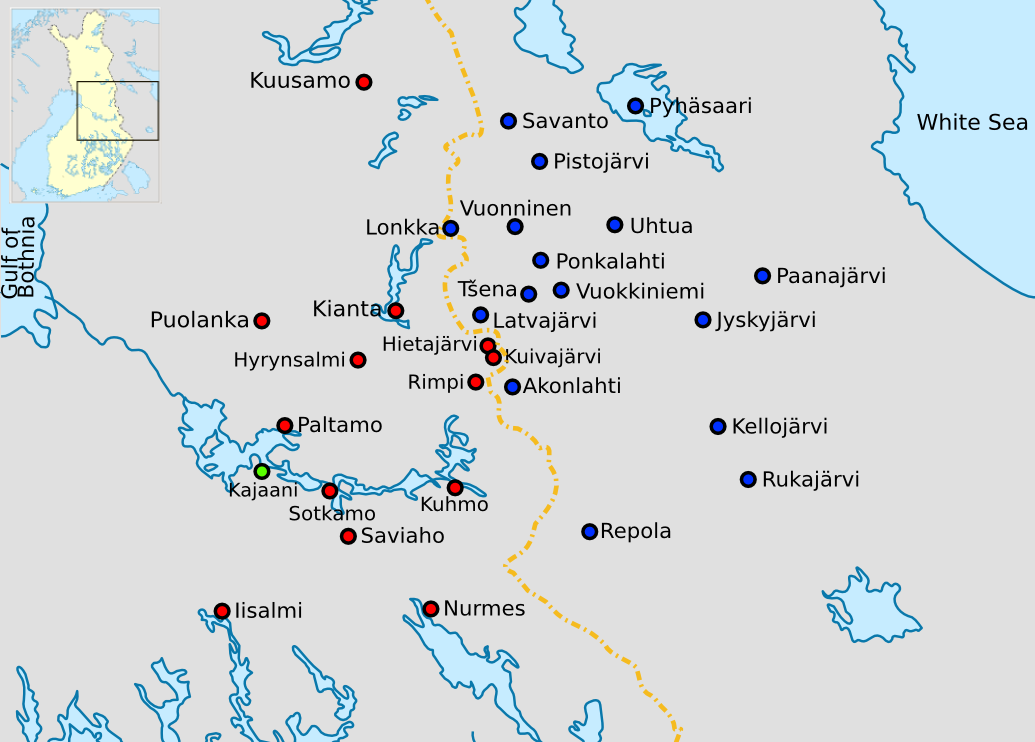 Locations of towns and villages important to Elias Lönnrot's work compiling The Kalevala. Blue towns are Russian, red towns are Finnish and Kajaani is in green as it was Lönnrot's base of operations for most of his work. The current border is shown purely for reference purposes as it played no impact in Lönnrots collecting because Finland was part of Russia during that time and the border was not policed.